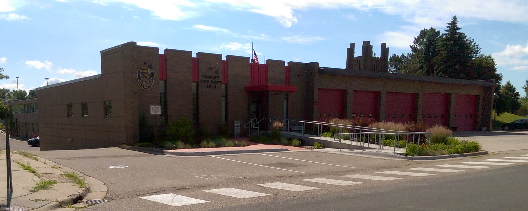 City Hall, West entrance Fire Station Number 1, Fridley, Minnesota, USA.